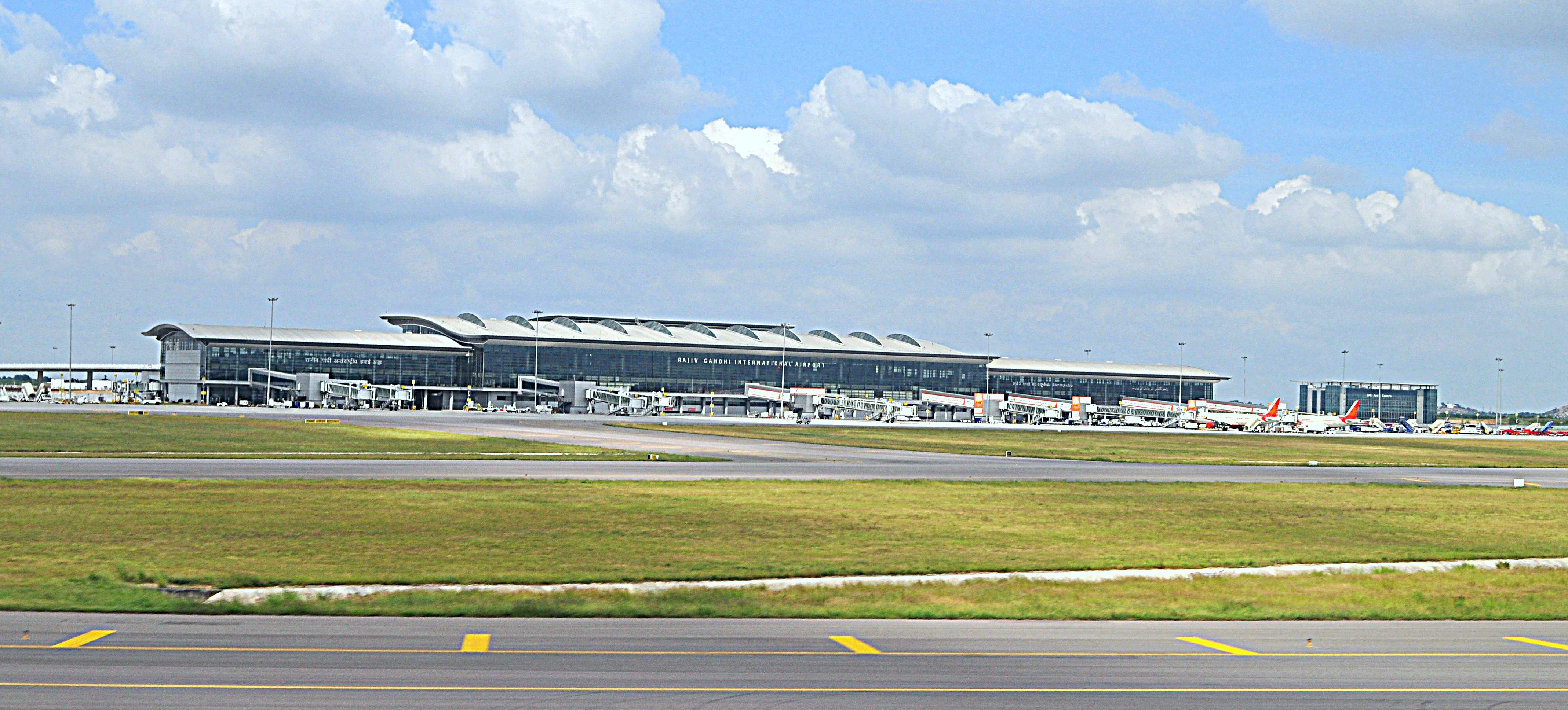 Rajiv Gandhi International Airport